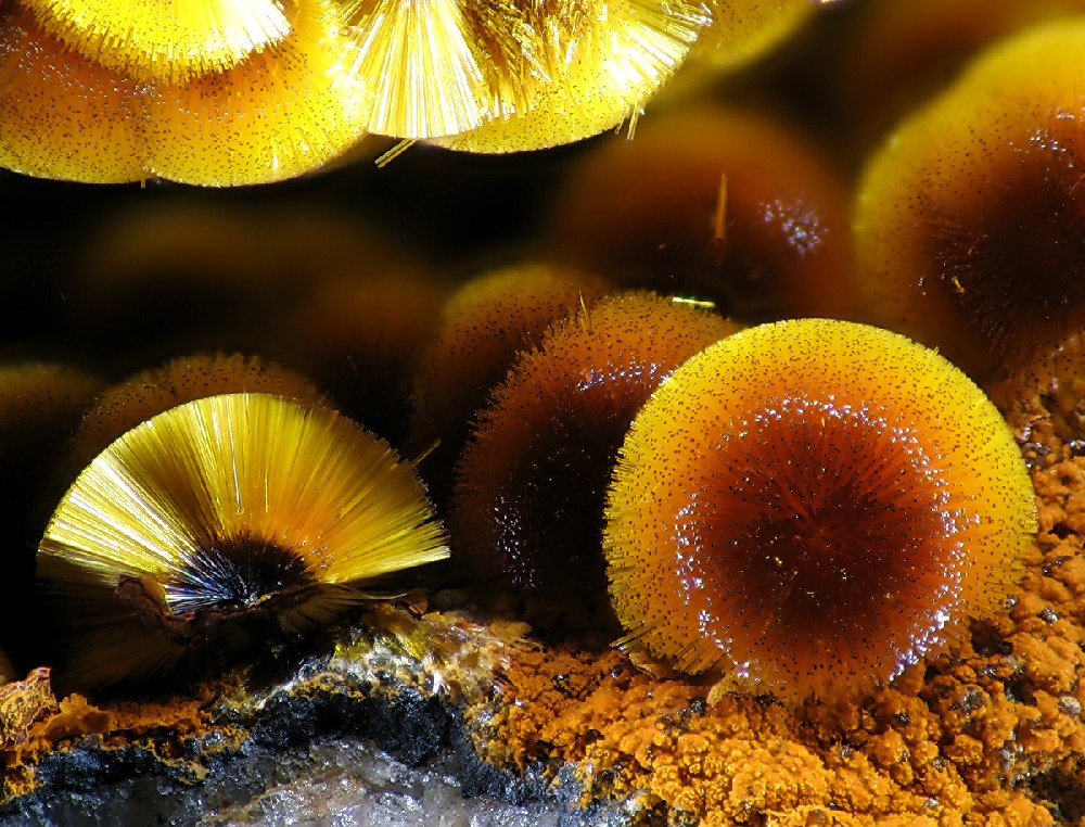 Cacoxenite Locality: El Horcajo Mine, Minas de Horcajo, Ciudad Real, Castile-La Mancha, Spain Picture width 3 mm. Collection and photograph Christian Rewitzer This Photo was Photo of the Day - 10th Jul 2007